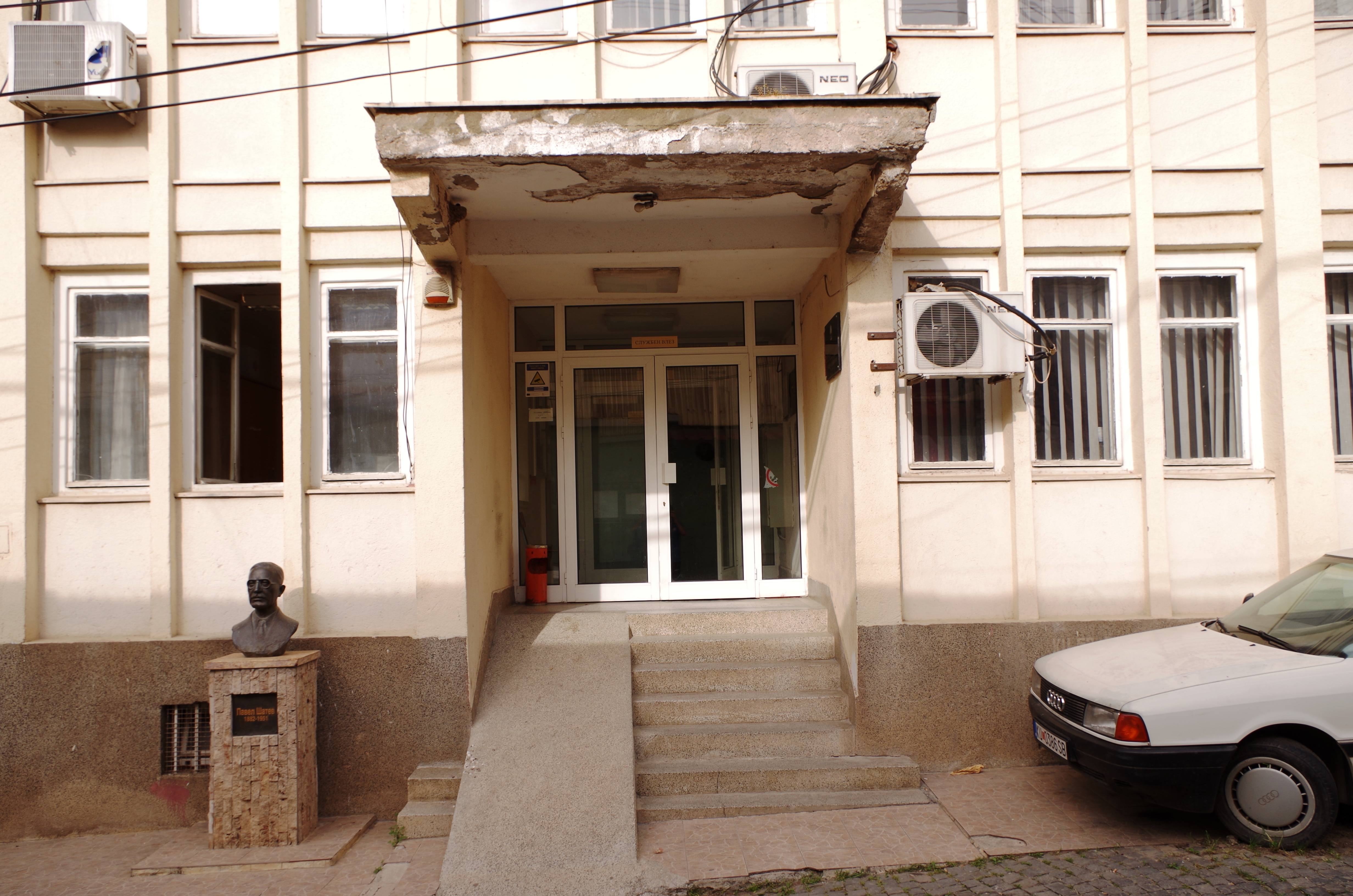 Entrance of the Court of Kratovo